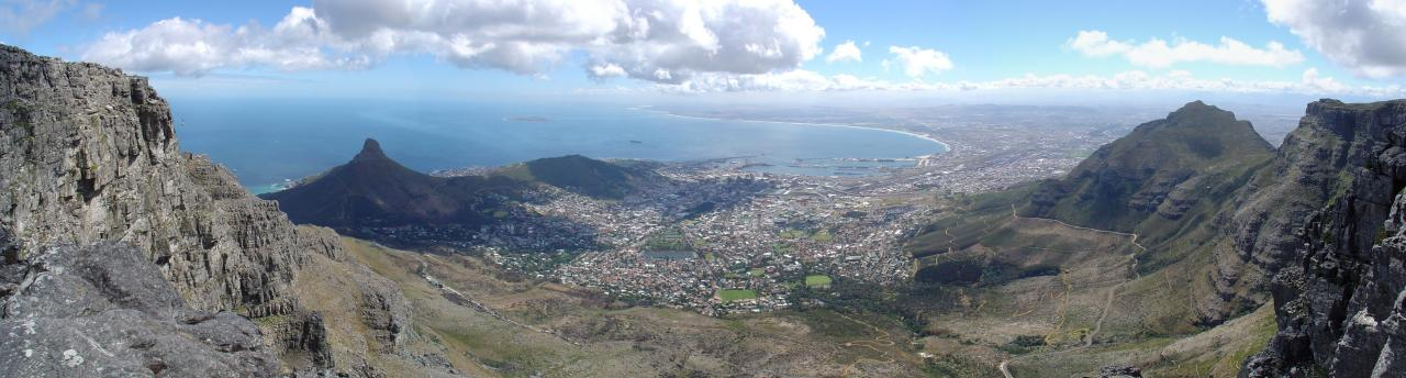 Panorama Image of Cape Town taken from the Table mountain (Sept 2006)